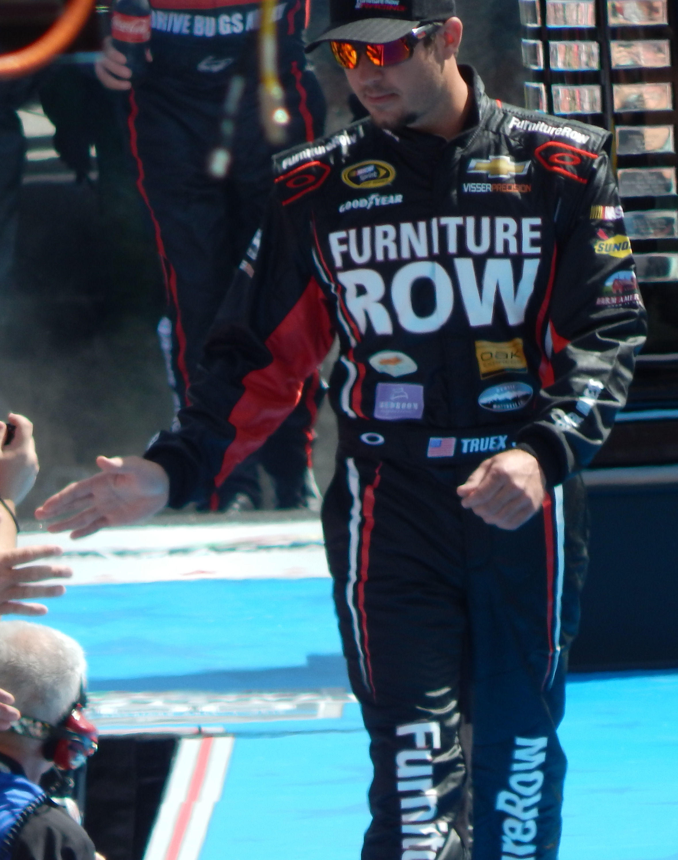 Martin Truex Jr. walking down the stage at driver into's at Daytona International Speedway.